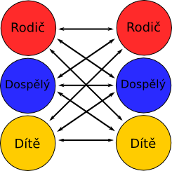 Reciprocal or Complementary Transactions, of Transactional analysis